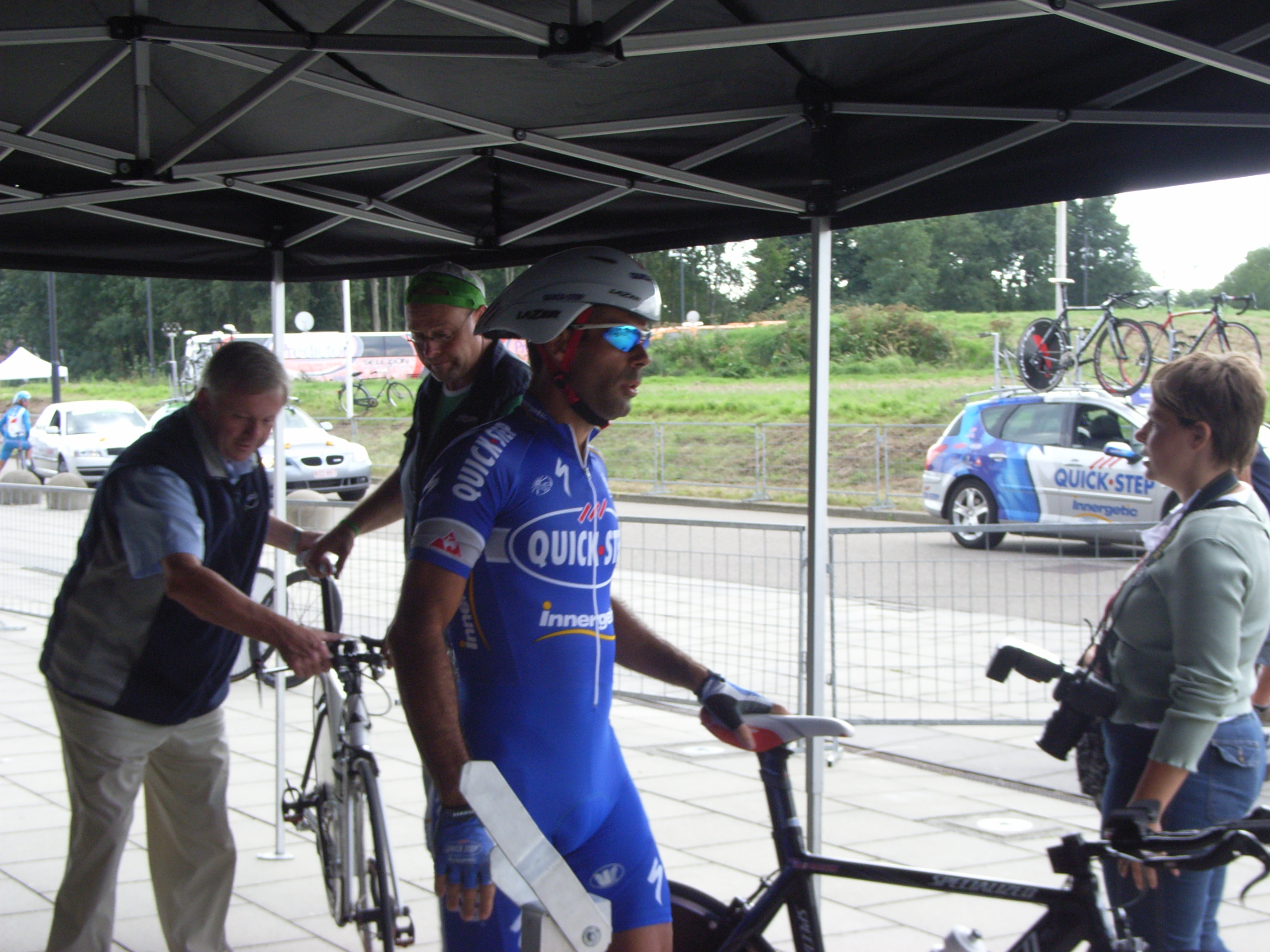 Cyclist Peter van Petegem in his last race (2007)